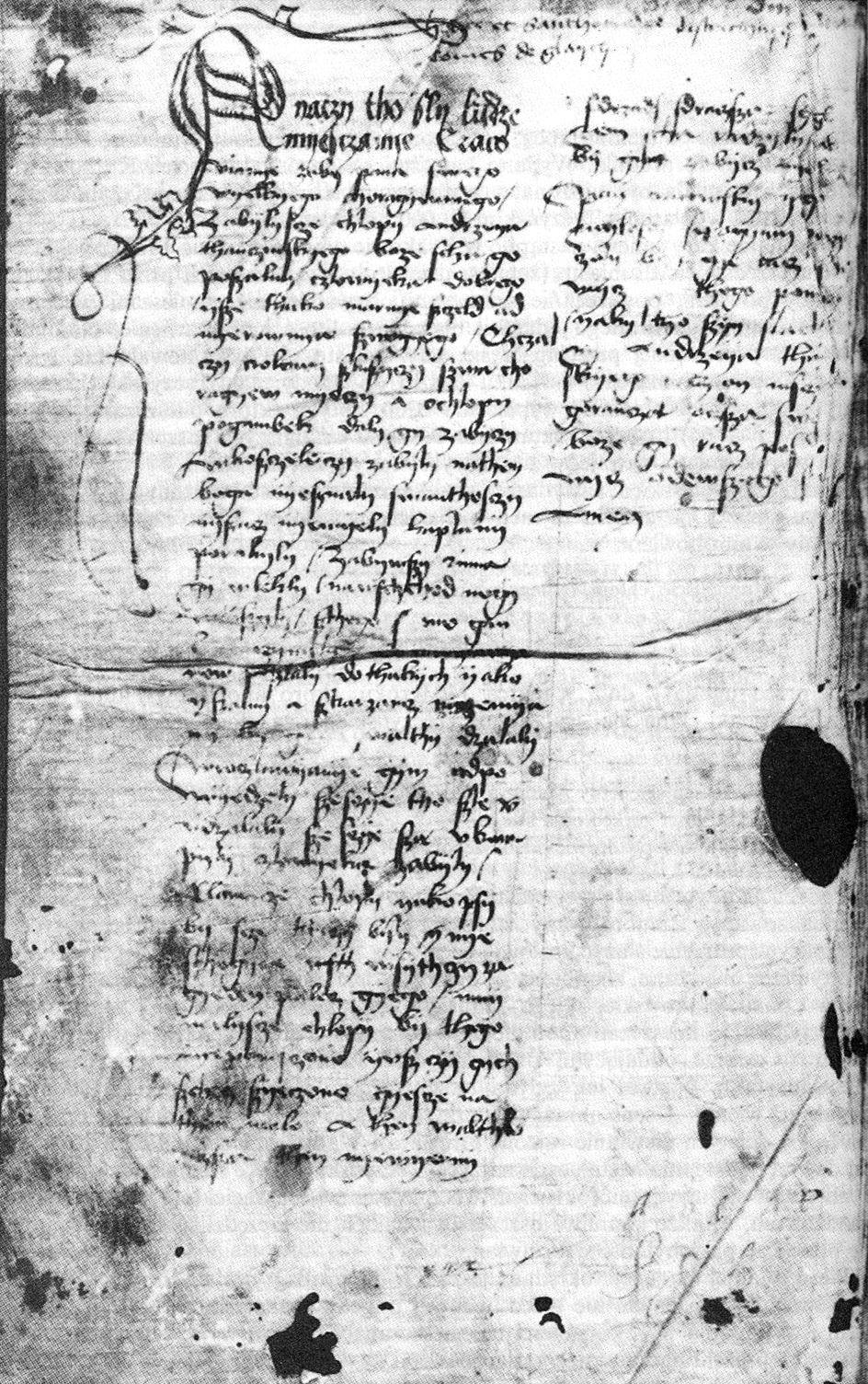 Manuscript of the "Wiersz o zabiciu Andrzeja Tęczyńskiego" from 15th century (about 1461).